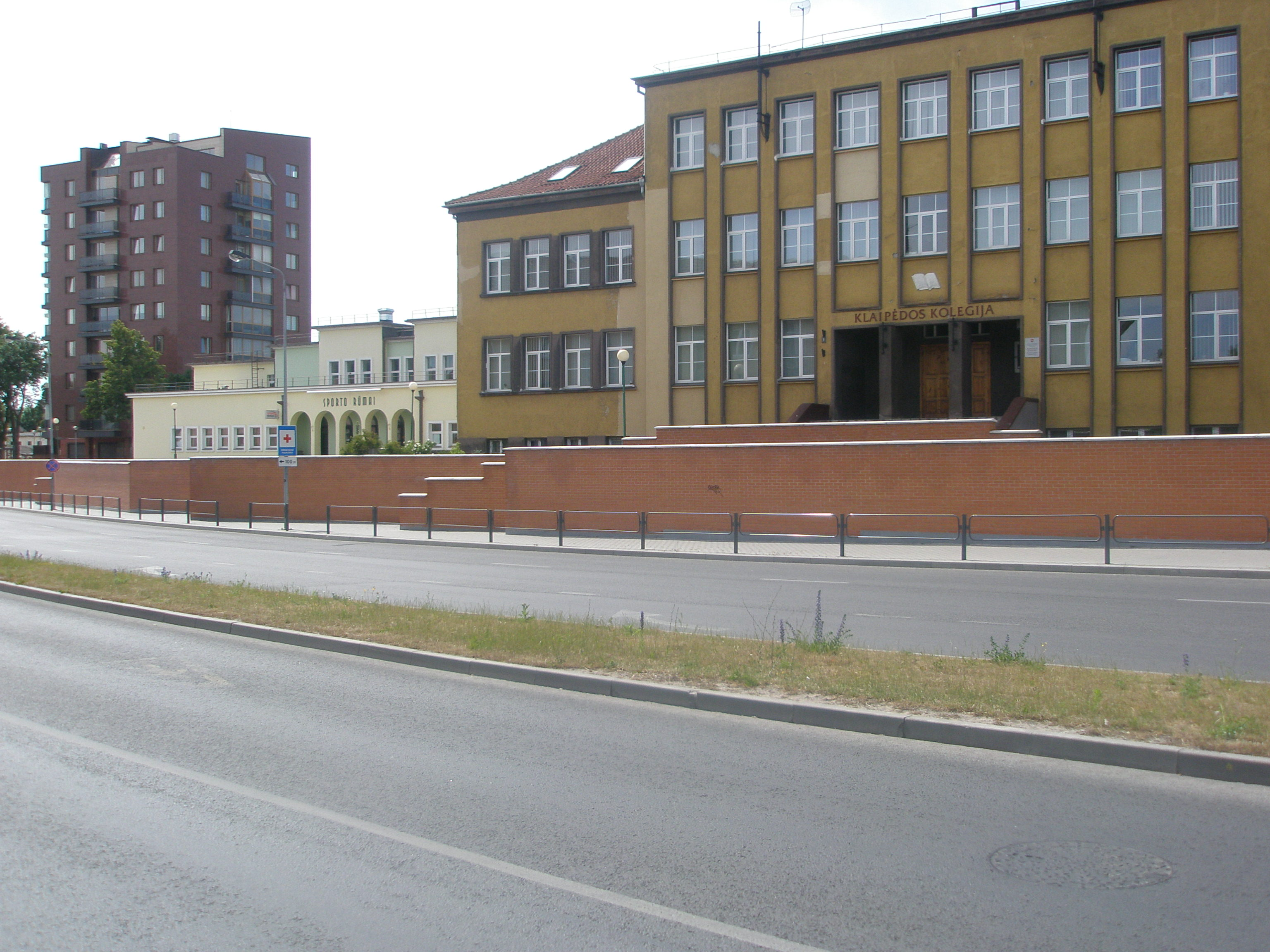 BomelioVitė iš Dariaus ir Girėno gatvės